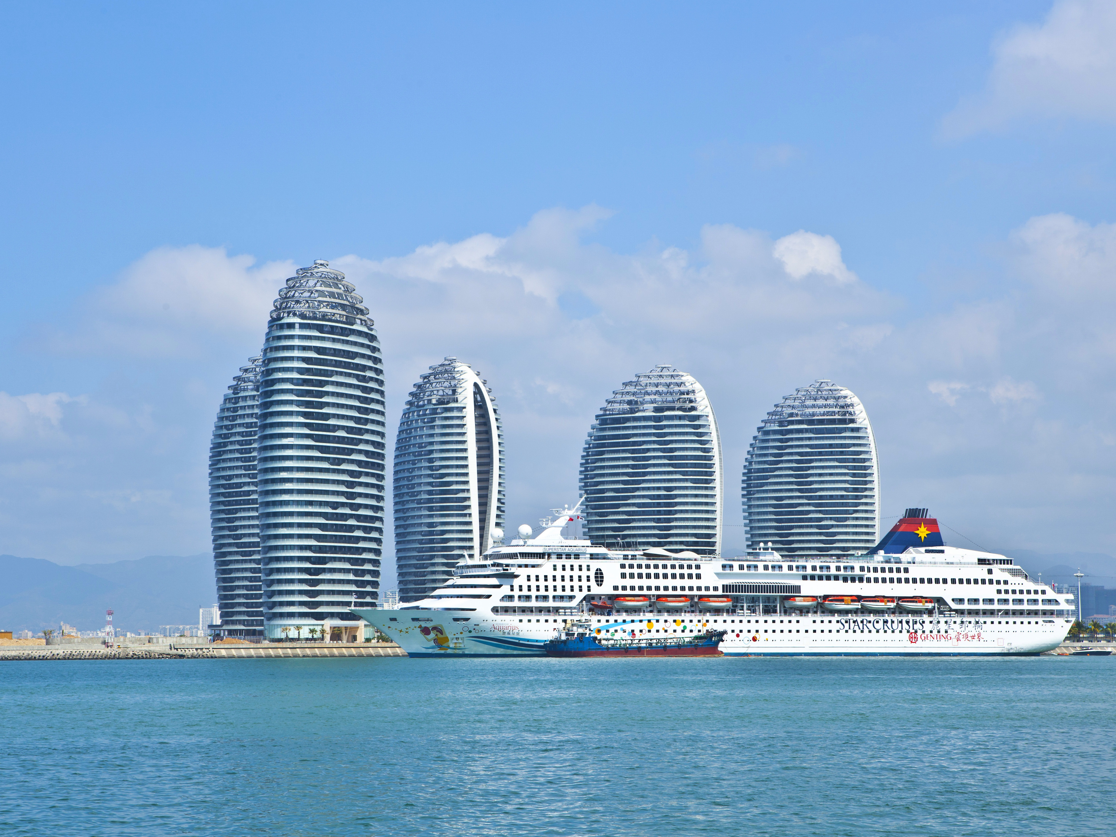 Superstar Aquarius (ship, 1993) at Phoenix Island, Sanya Bay, Hainan, China. 中文（中国大陆）: 一艘邮轮在三亚湾凤凰岛附近水面。 中文（香港）: 一艘郵輪在三亞灣鳳凰島附近水面。